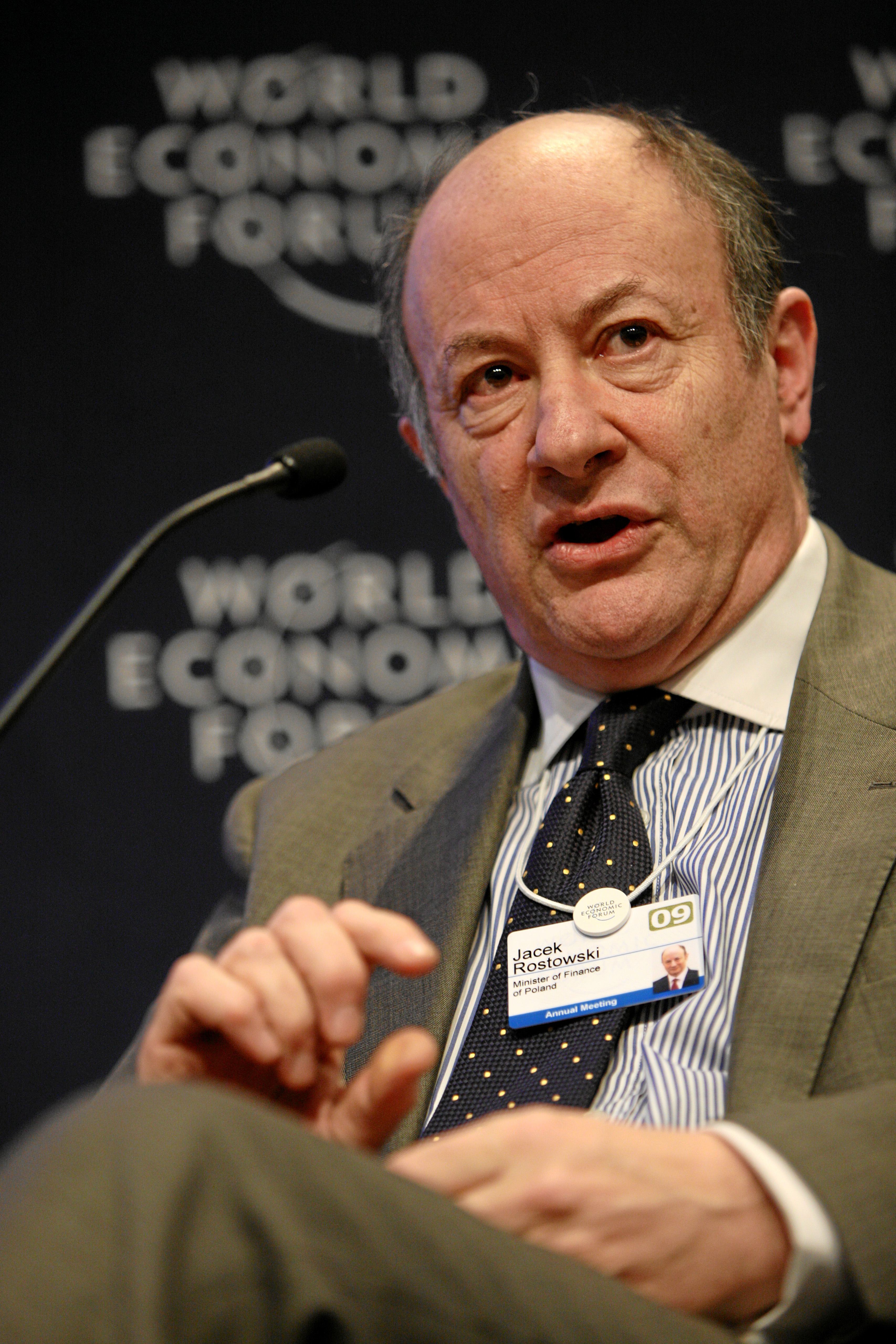 DAVOS-KLOSTERS/SWITZERLAND, 28JAN09 - Jacek Rostowski, Minister of Finance of Poland, captured during the session 'Update 2009: Europe' at the Annual Meeting 2009 of the World Economic Forum in Davos, Switzerland, January 28, 2009.